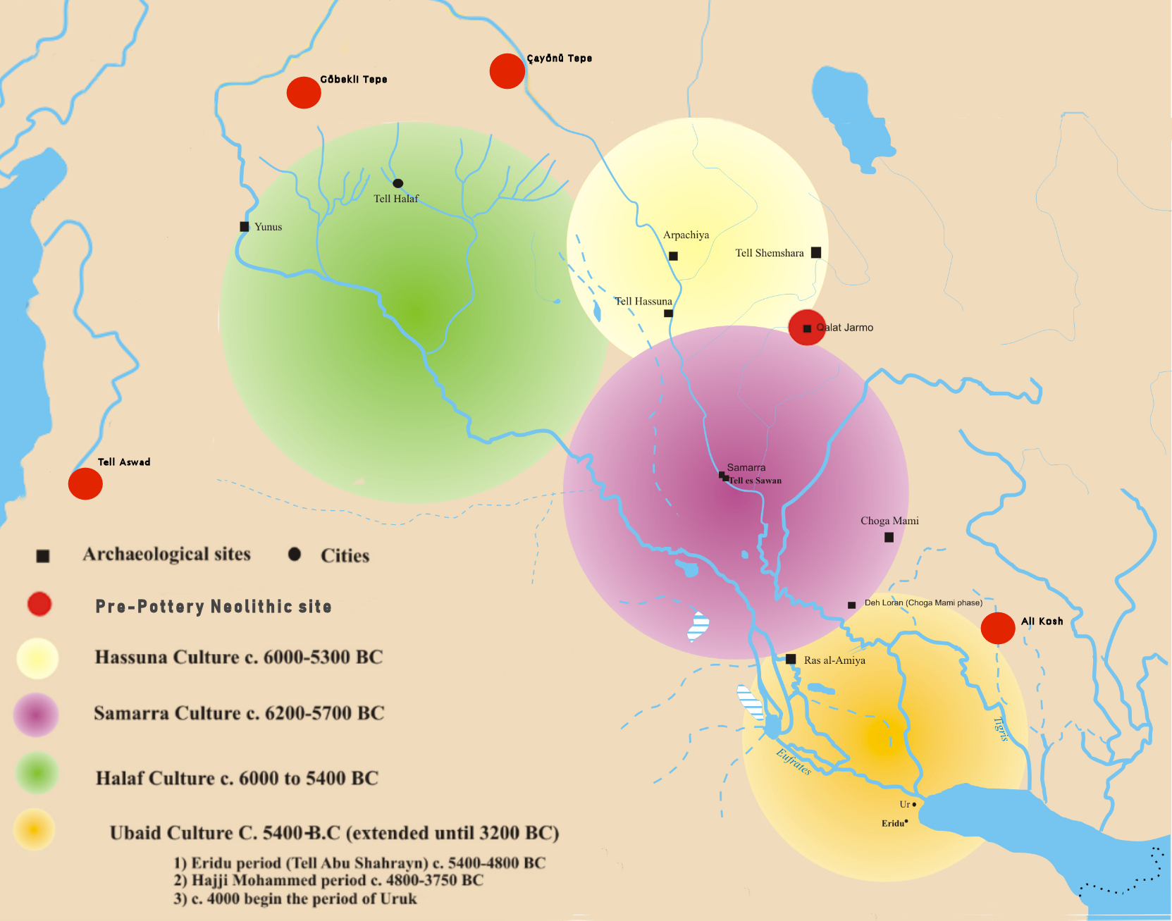 Mesopotamian Prehistorical cultures